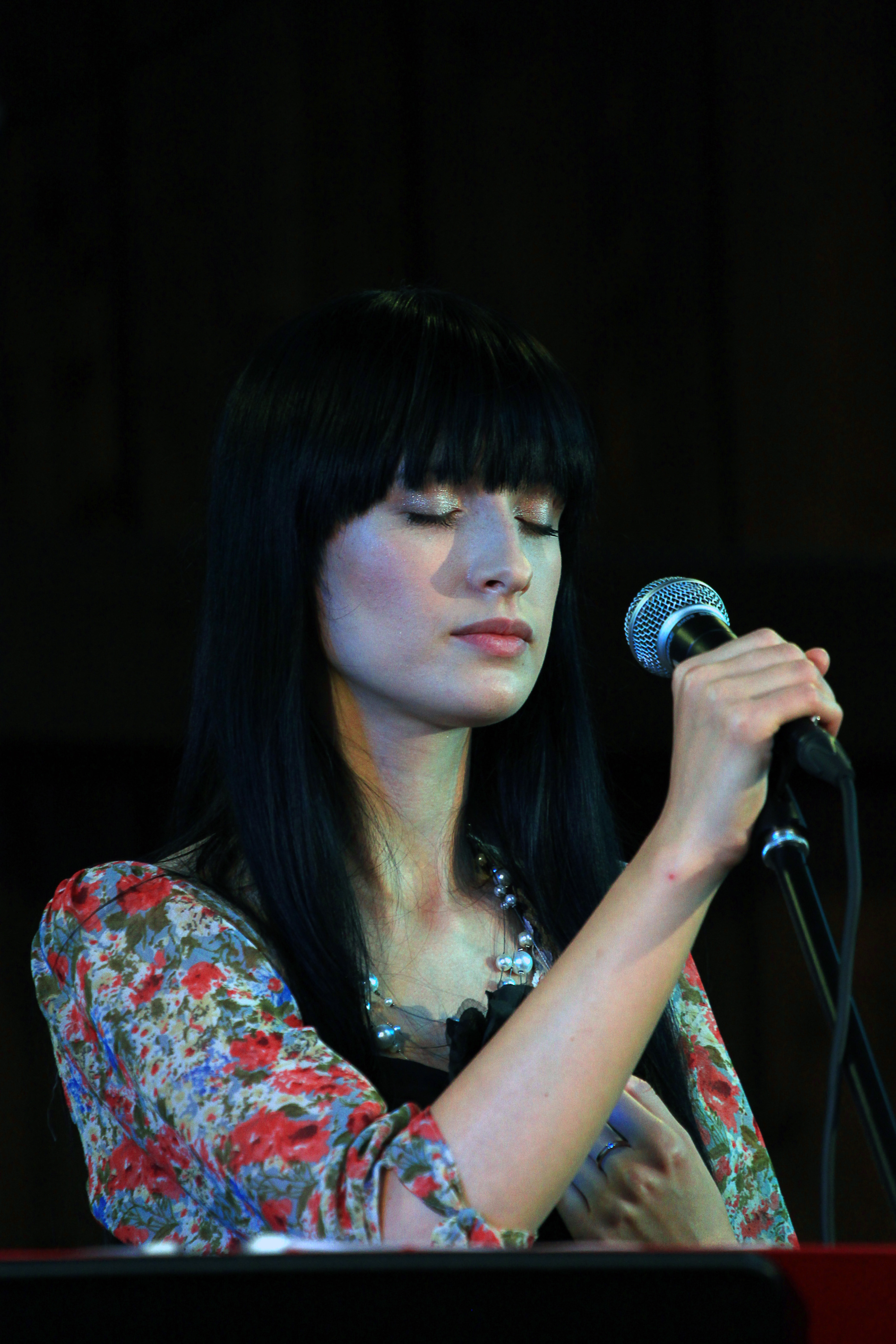 Sandra Nurmsalu, performing at her "Rändajad" Concert in Tartu, July 11th 2013.